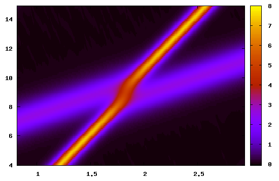 A numerical simulation of the Korteweg-de Vries equation. Two soliton waves colliding.